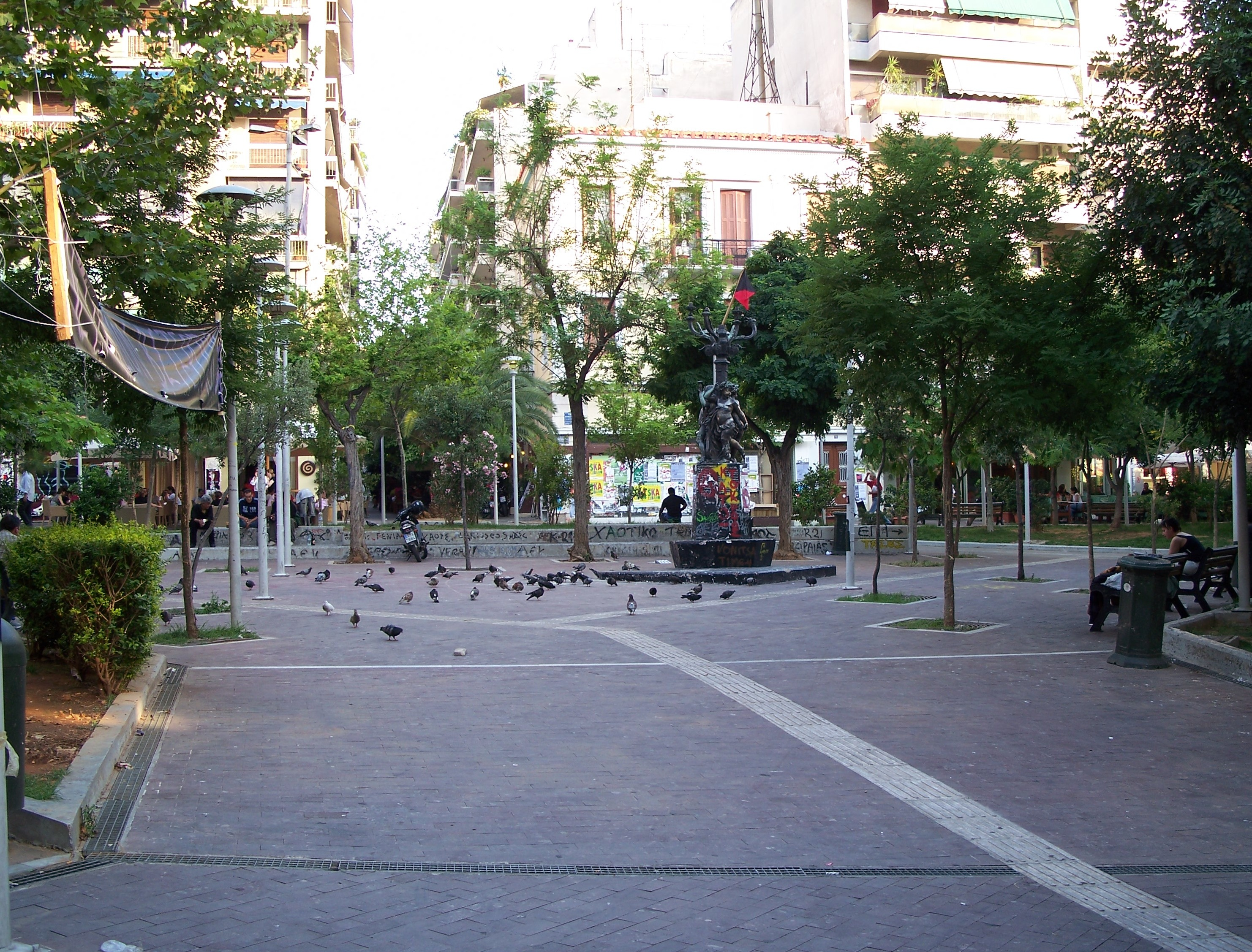 Exarchia square in Central Athens